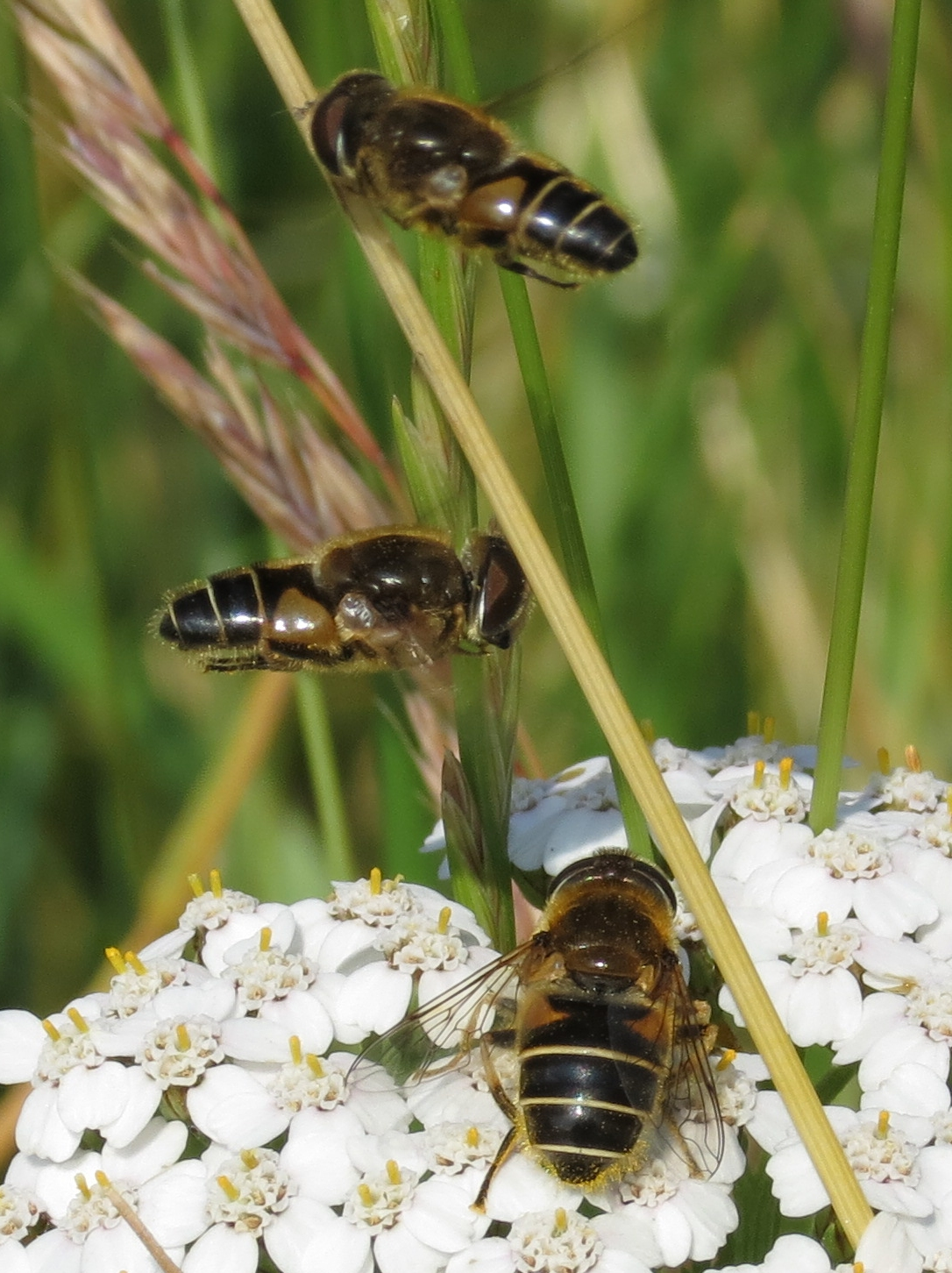 Eristalis nemorum courtship two males.